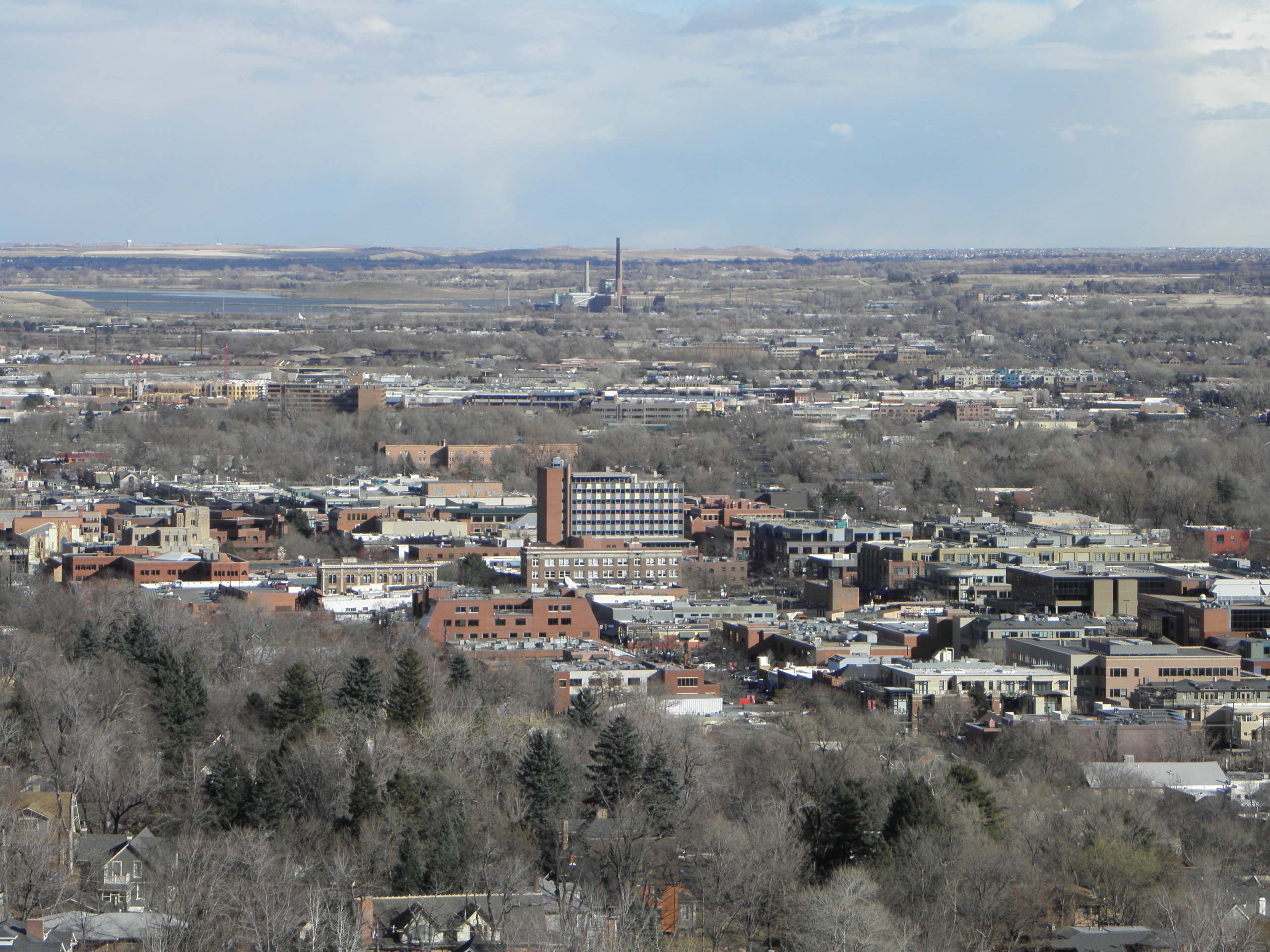 Downtown Boulder, viewed from the Red Rock trail to the west (zoom-in).